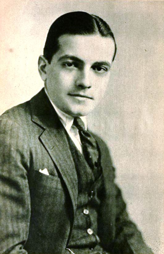 Actor Richard Barthelmess on page 22 of the July 1920 Motion Picture Magazine.